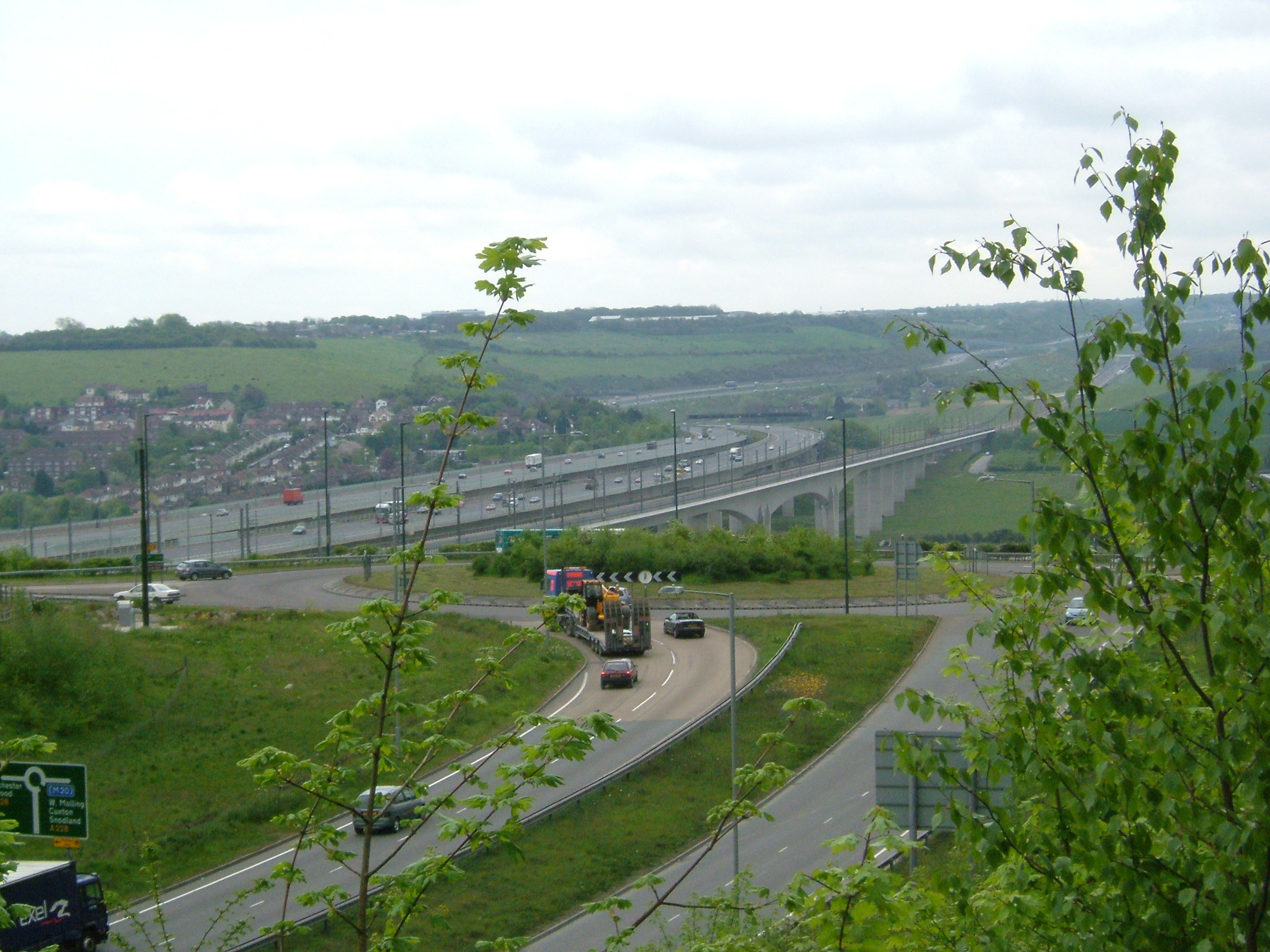 The M2 junction 2 entry roundabout on the A228 and the M2 Motorway Bridge and the Channel Tunnel Rail Link Bridge crossing the River Medway, viewed from Merrall's Shaw, Ranscombe Farm, Cuxton. On the far bank we see Borstal, Fort Borstal and the motorway snaking up the Nashenden Valley while the rail link proceeds in a more direct line. On the roundabout is a bus run by Arriva, serving the 151 route Chatham to West Malling.